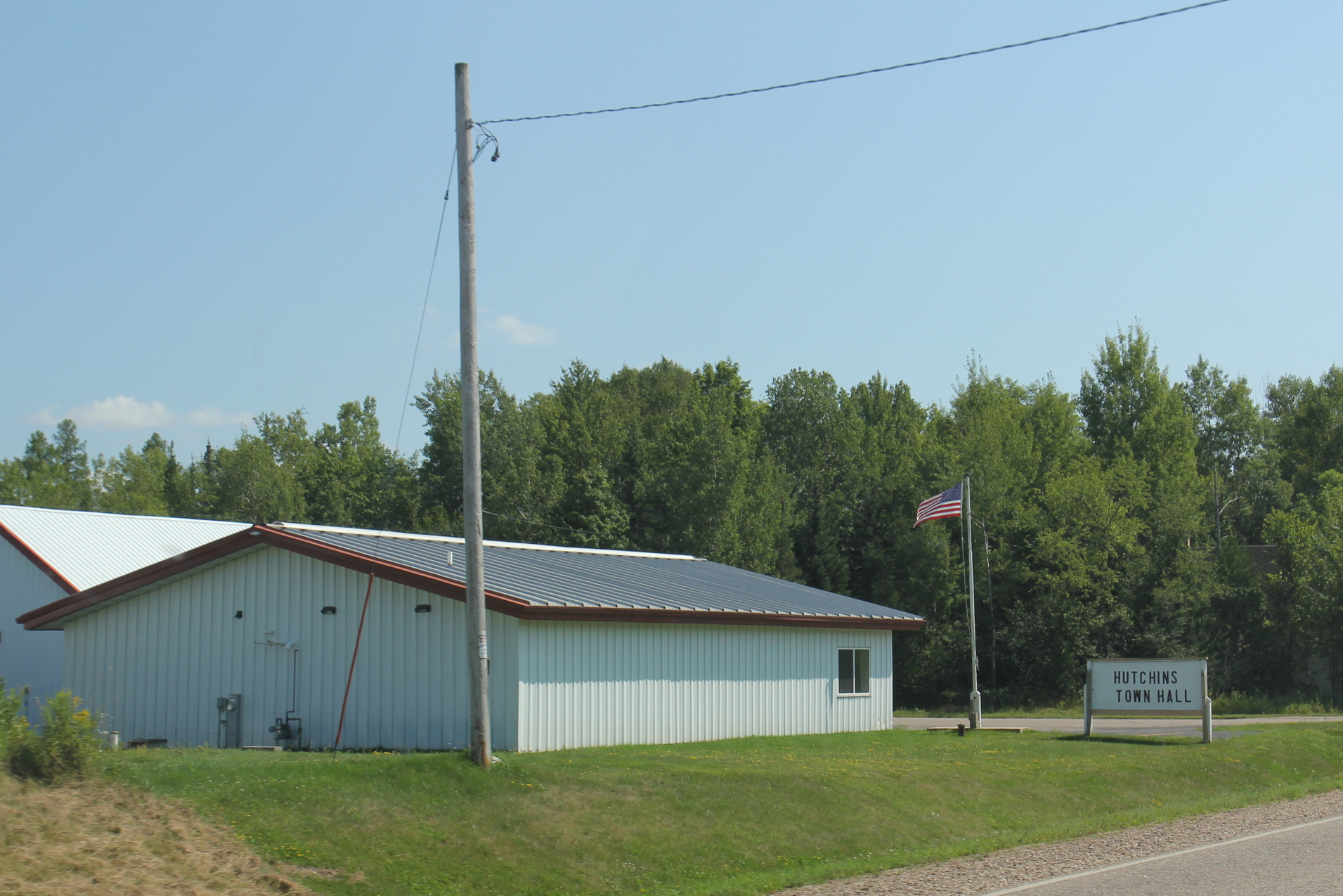 The town hall for Hutchins, Wisconsin by Mattoon.